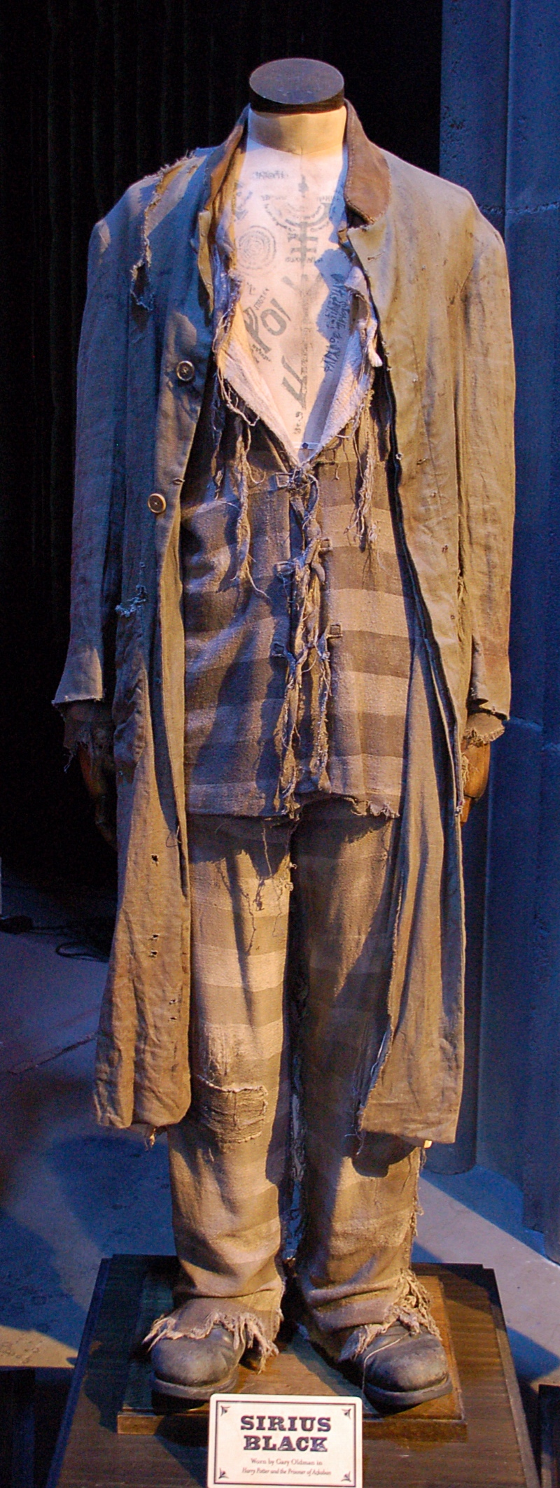 Sirius Black prison costume (from Harry Potter and the Prisoner of Azkaban) at Warner Bros. Studio Tour London